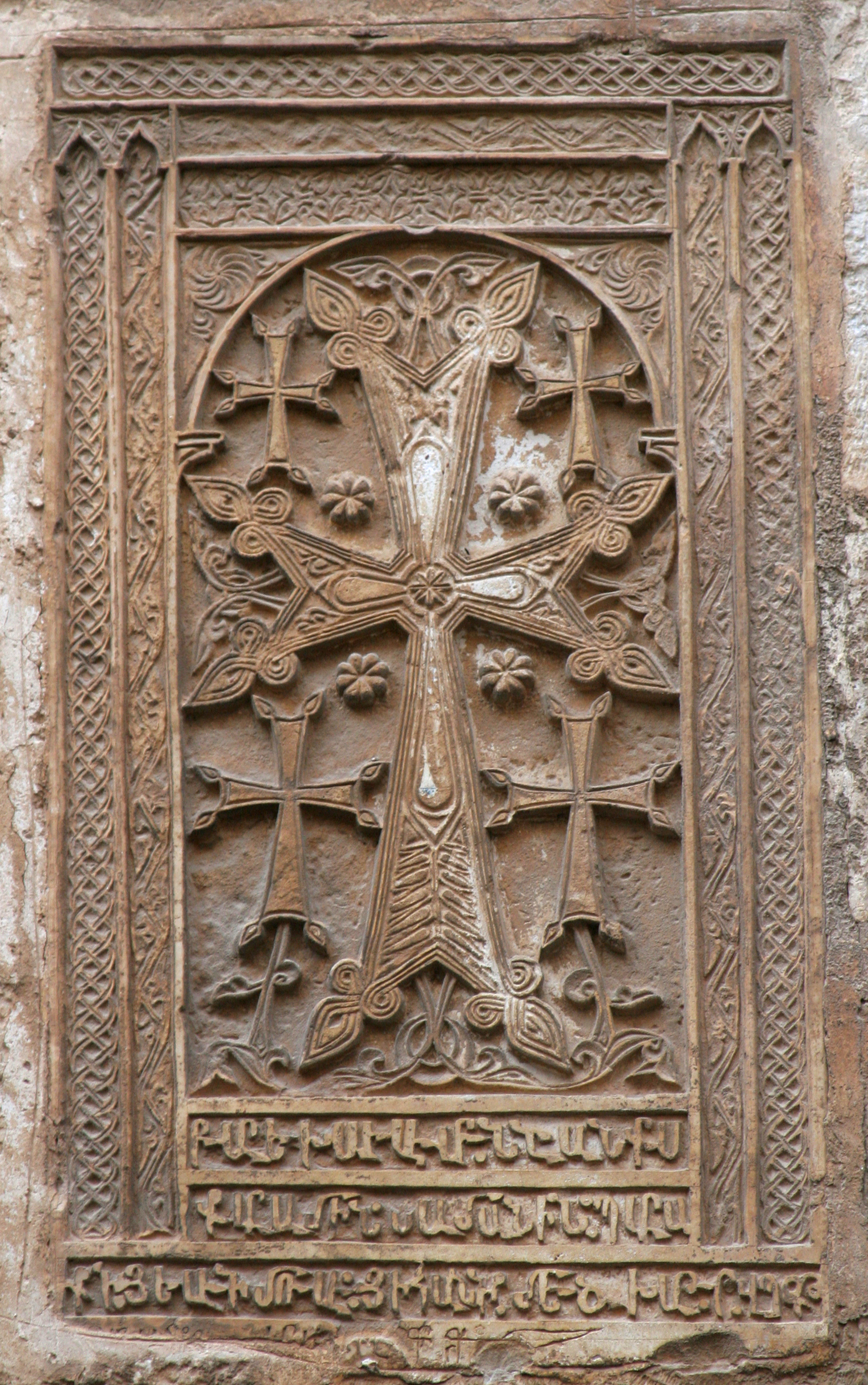 Armenian khackar (cross stone) at the Cathedral of Saint James in the Armenian Quarter of Jerusalem, 1440 (year ՊՁԹ - 889).